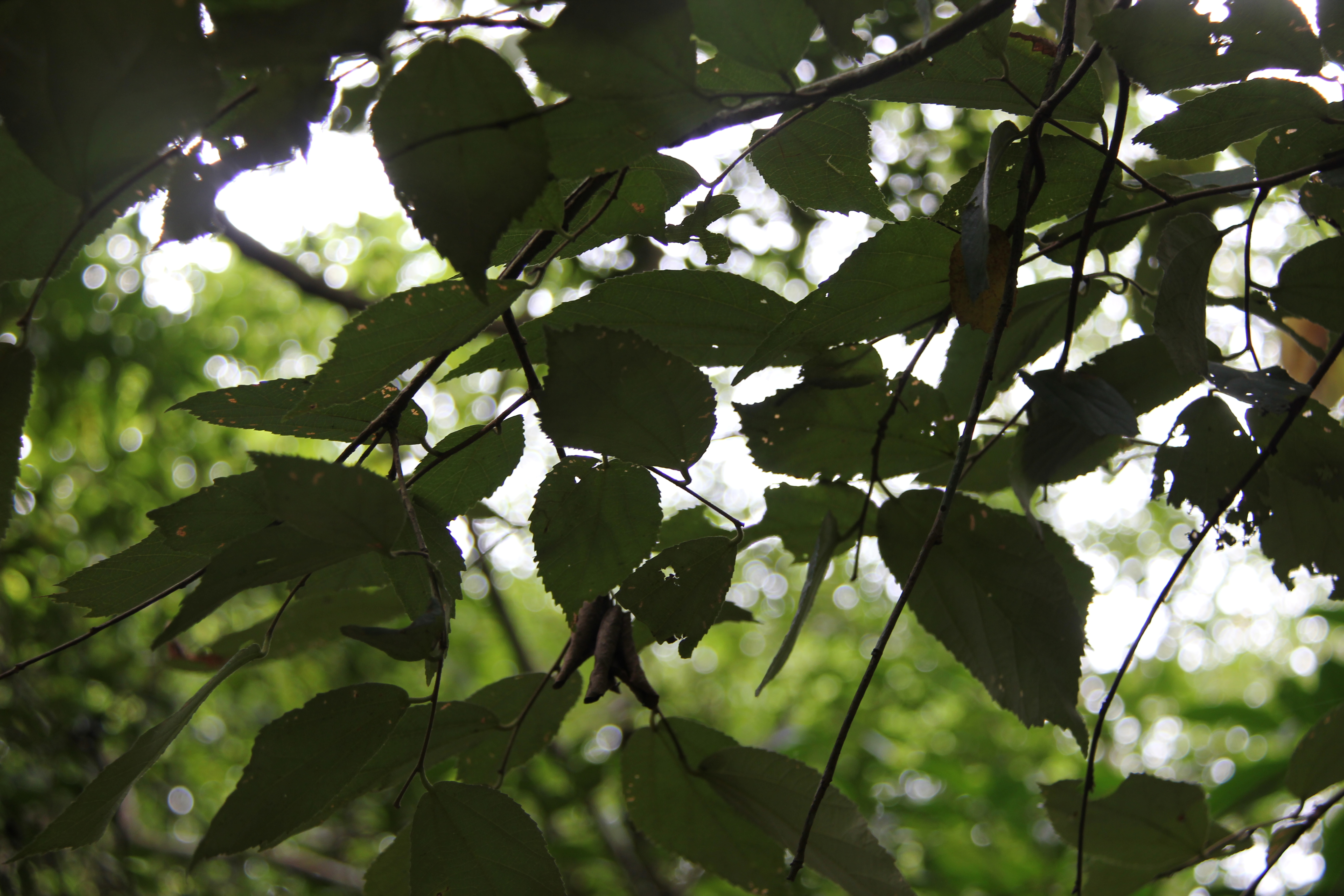 Luehea divaricata (locally described as Azota caballo) in the Iguazu Falls Park, Argentina.